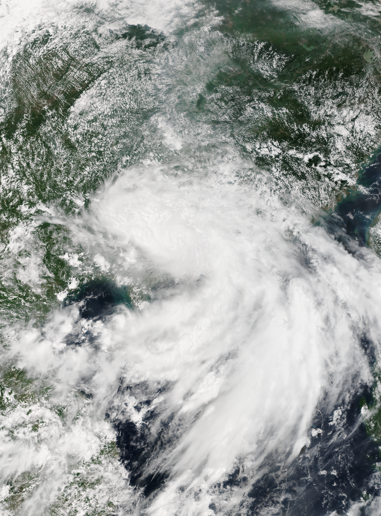 Severe Tropical Storm Pakhar at peak intensity over Guangdong, China on August 27, 2017